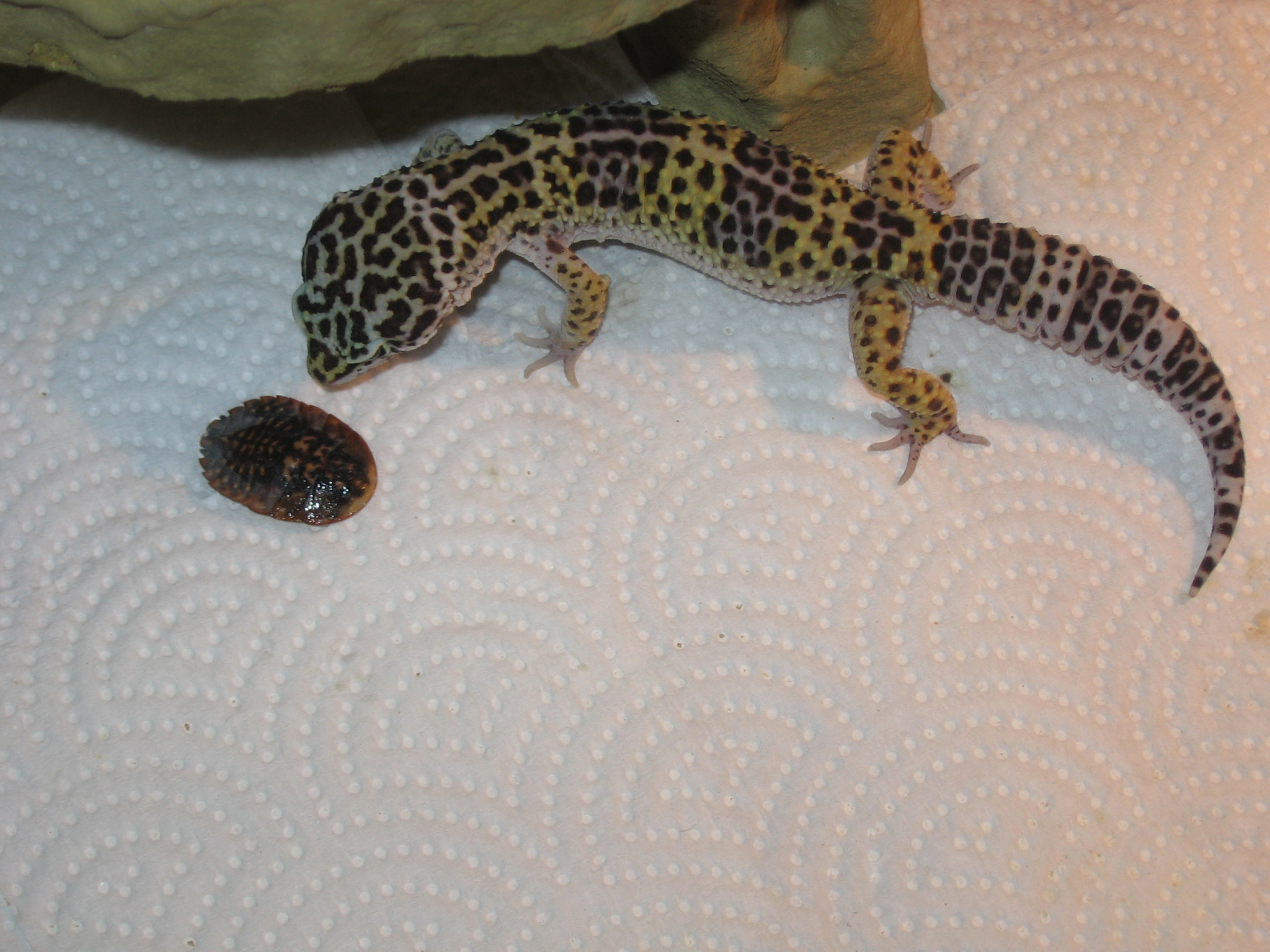 Leopard Gecko